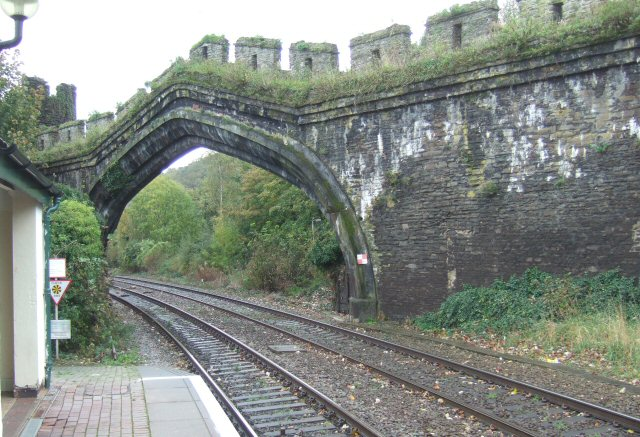 Railway Arch An interesting Victorian modification to allow the trains to pass through the 13th century walls.